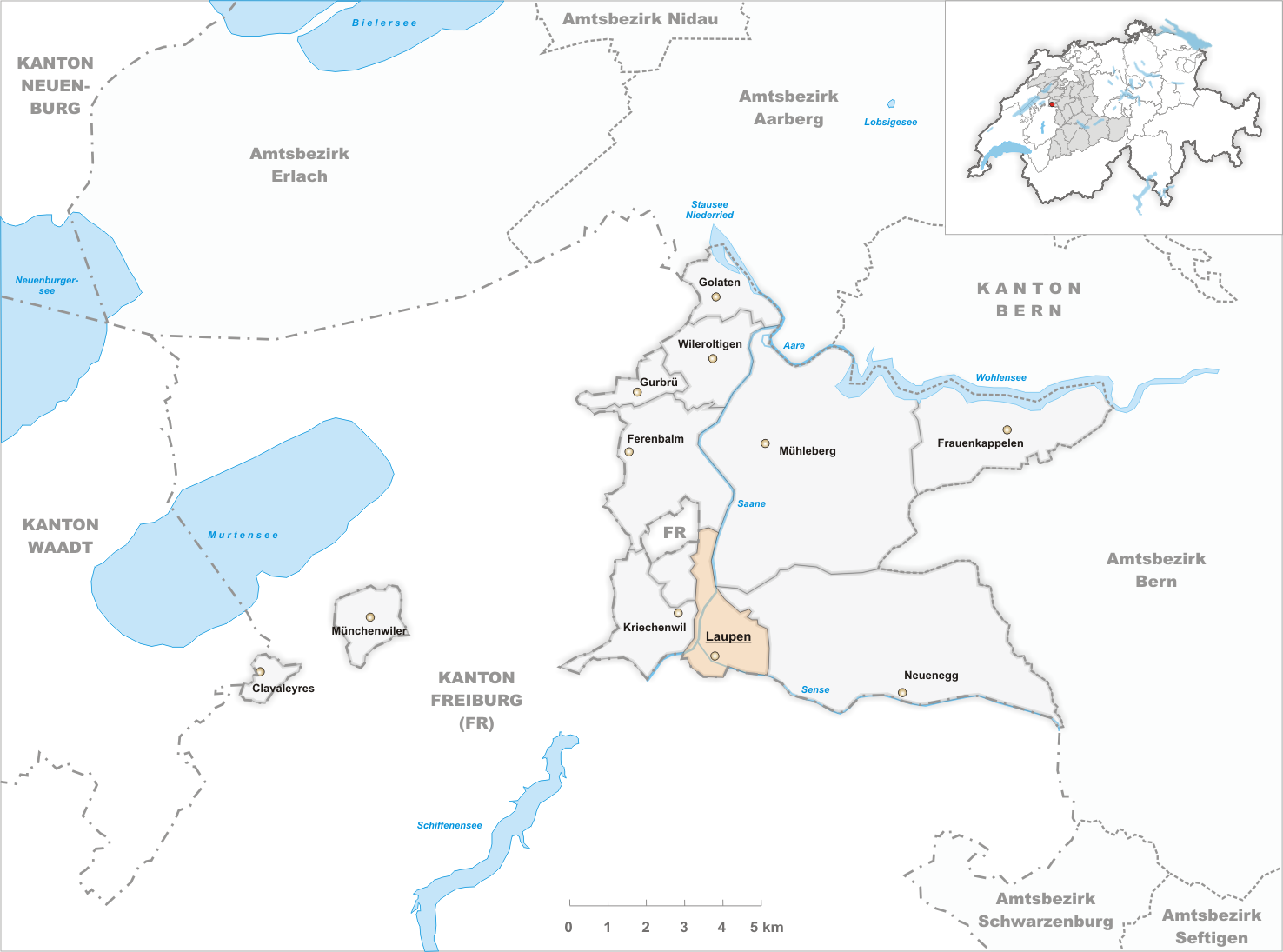 Municipality Laupen